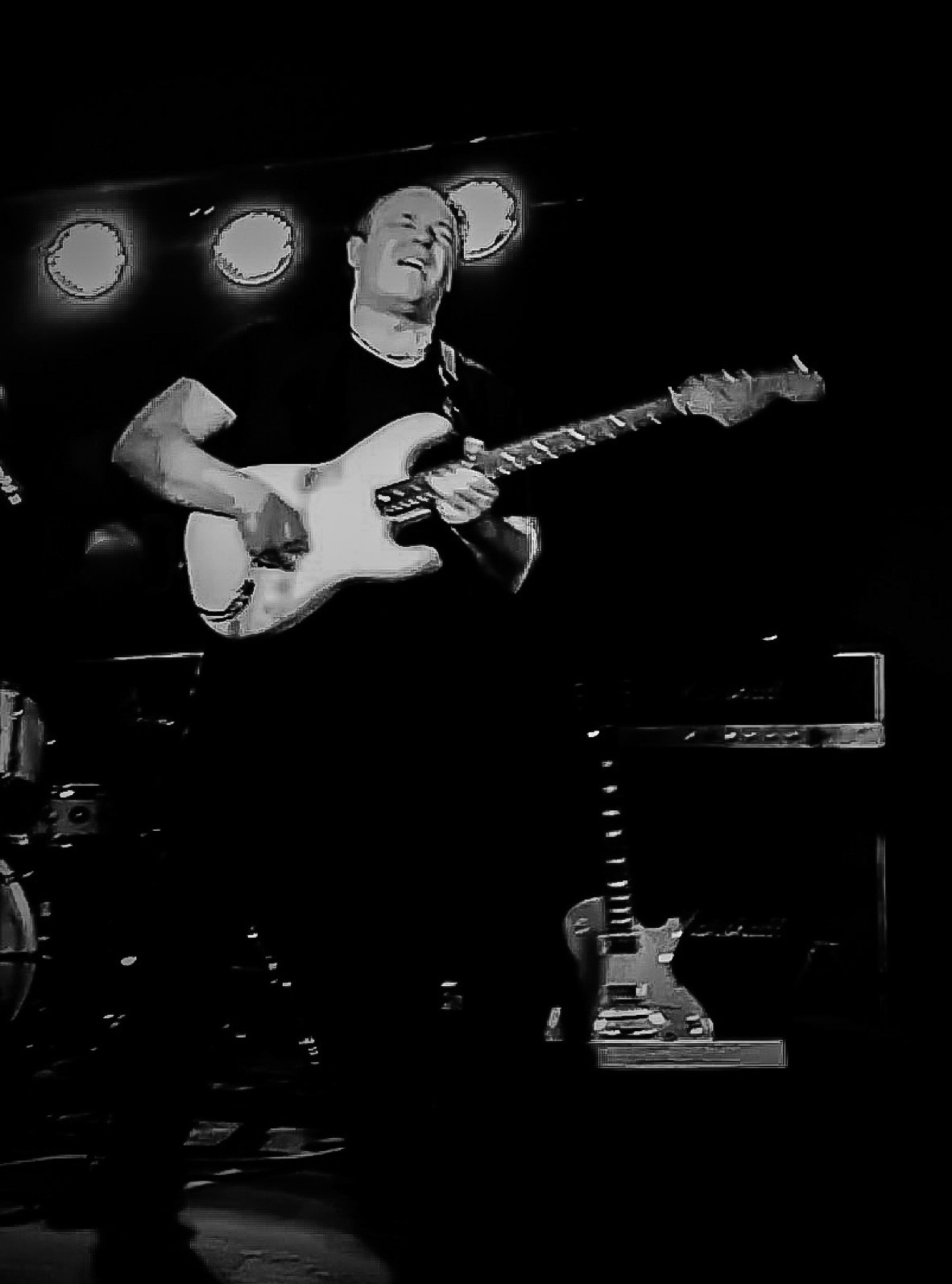 Mick Simpson live in Sassari